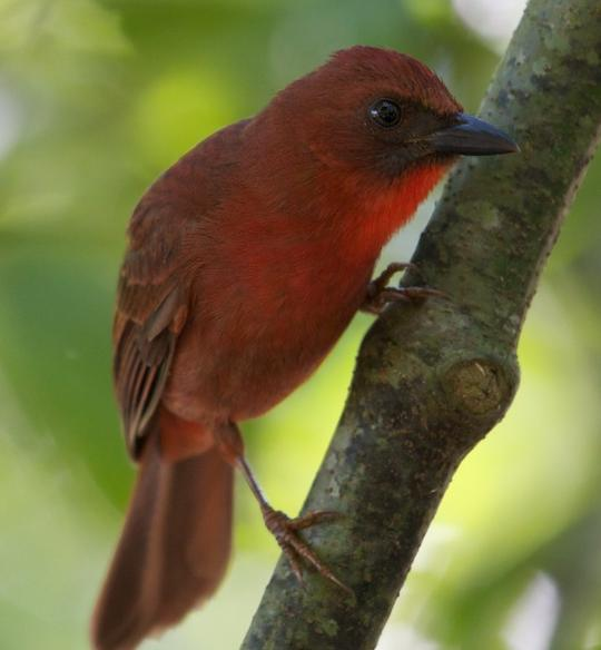 A male Red-throated Ant-tanager in Belize.